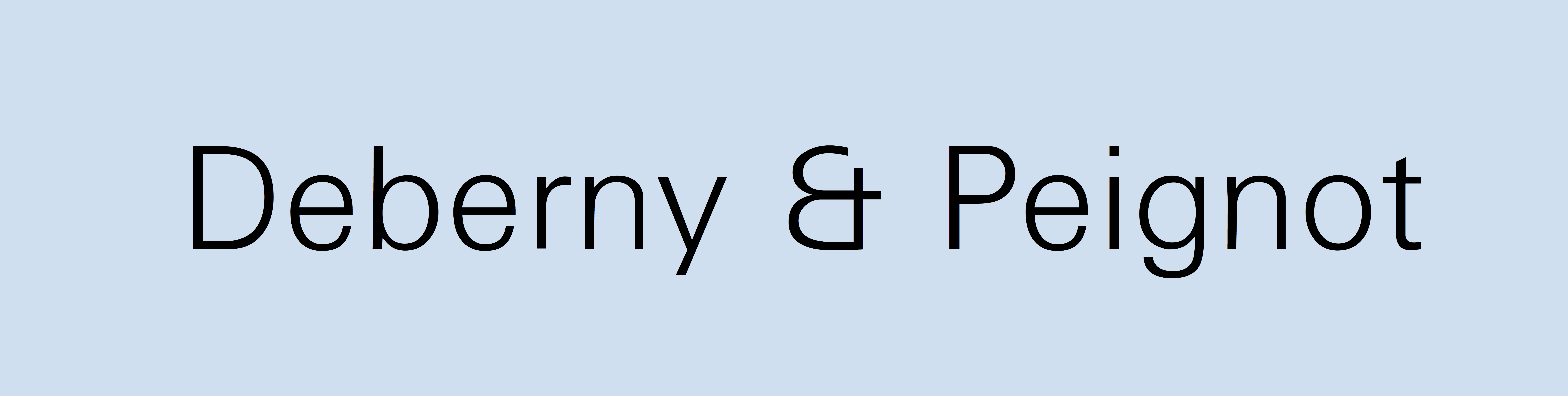 The original ampersand of Adrian Frutiger's Univers typeface is a distinctive 'et' ligature of a kind popular in French-speaking countries. A different version was provided for use elsewhere.